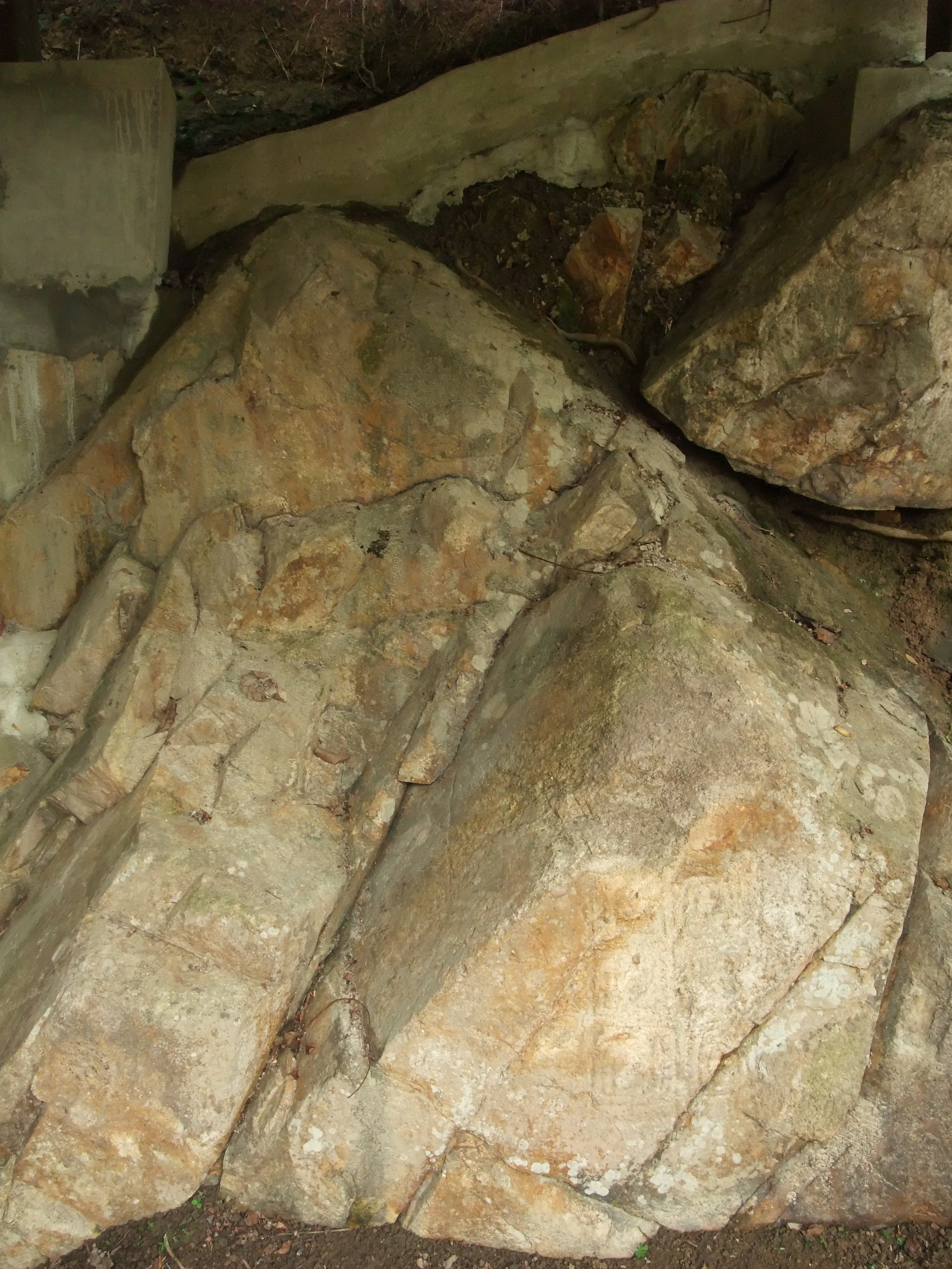 Photo of Shek Pik Rock Carving